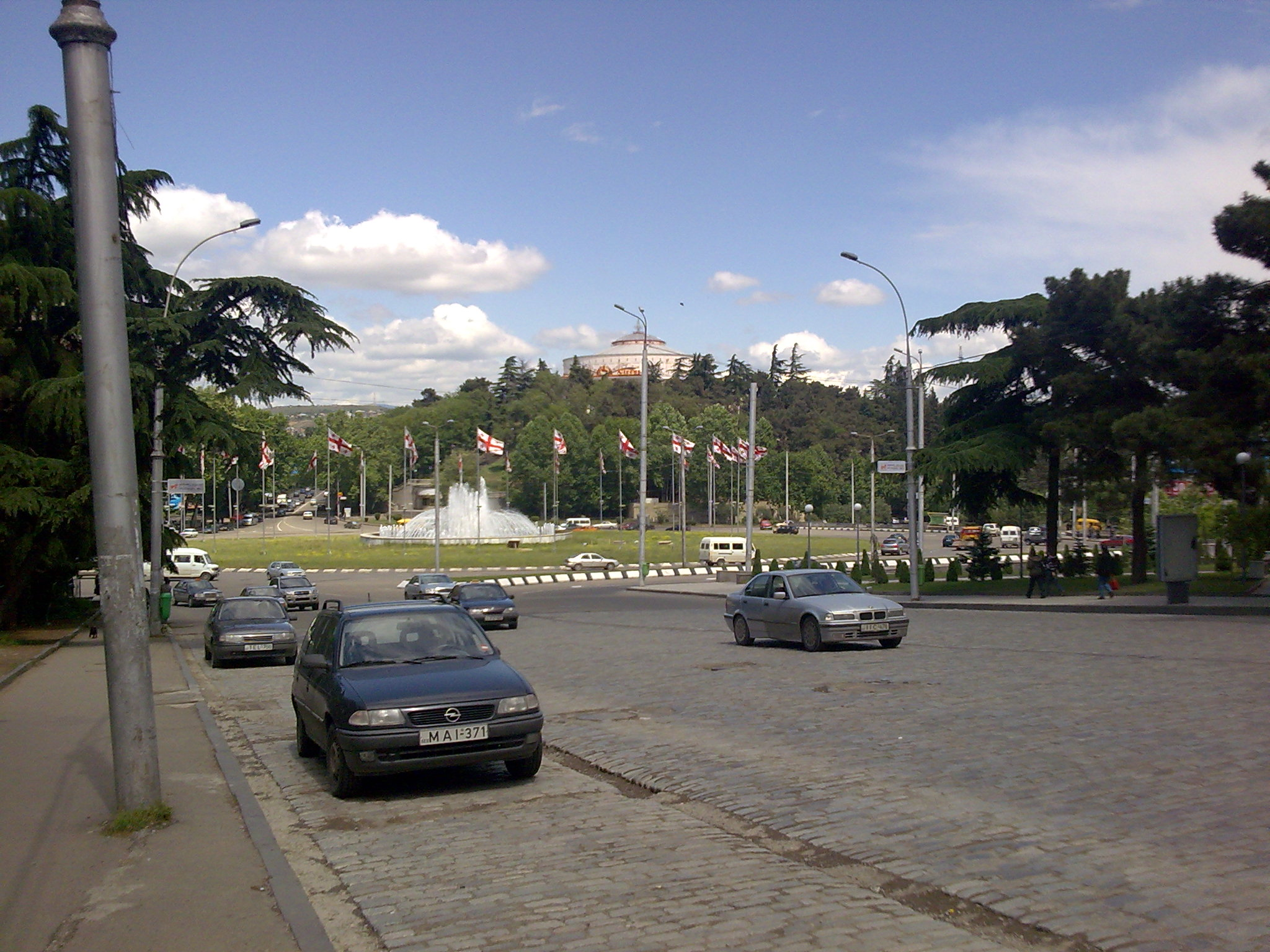 Heroes' Square, Tbilisi. The Tbilisi Circus is seen on a hill overlooking the square.